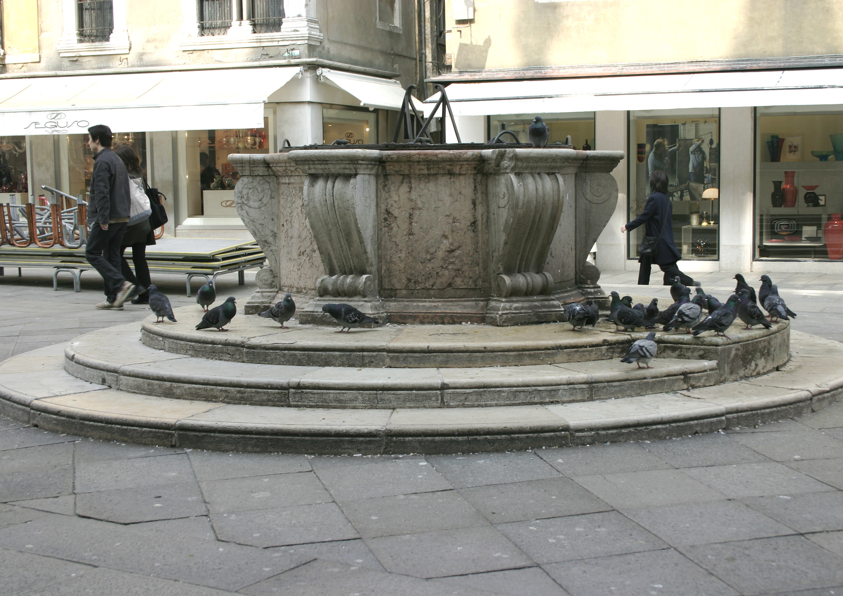 Venice – Well in the Piazzetta dei Leoncini